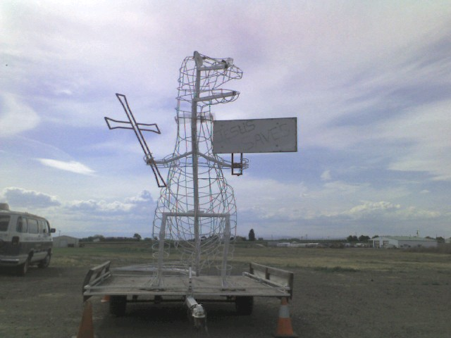 A wire-frame Godzilla model located in front of the Church of God Zillah in Zillah, Washington, USA